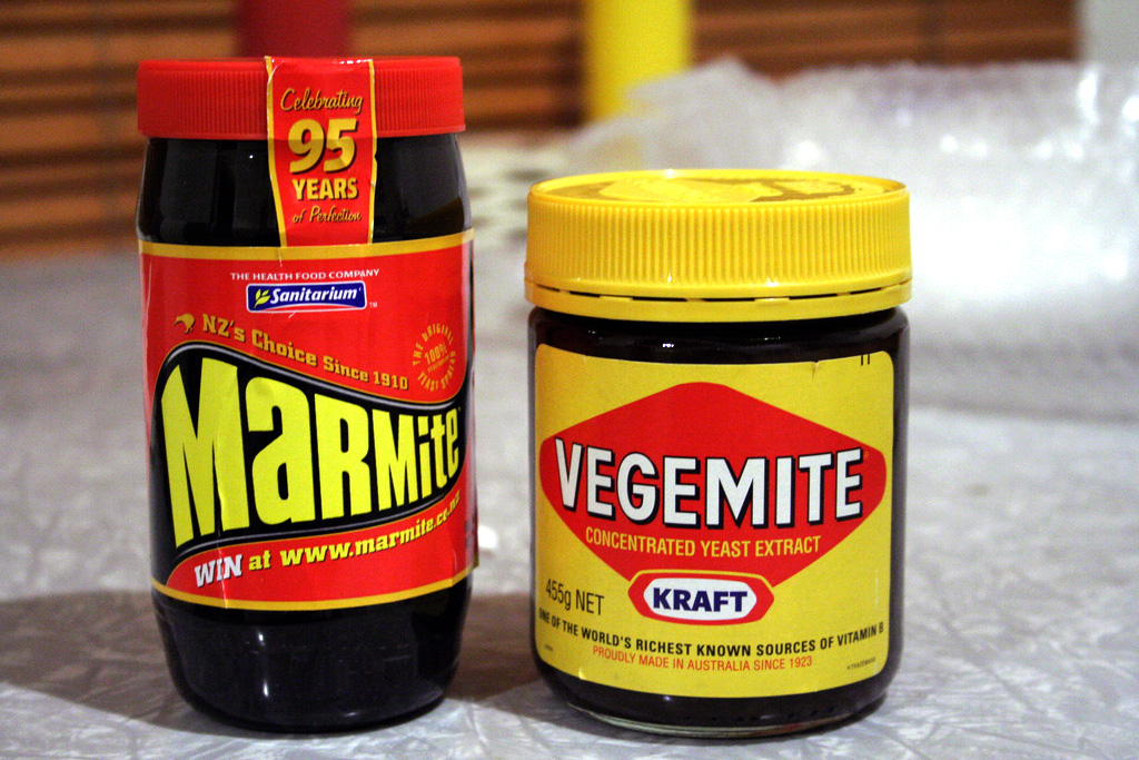 A photo of Vegemite and Marmite.